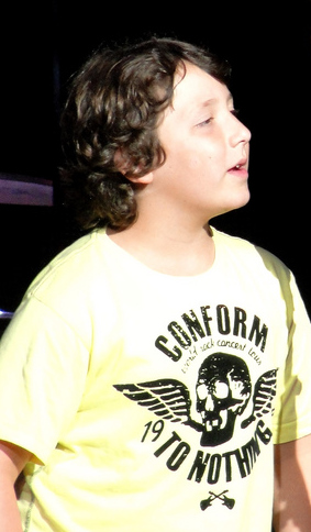 Jonas Brothers Live In Concert and The Cast of Camp Rock 2, September 2nd, 2010.